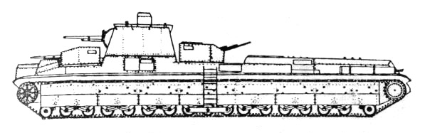 The draft of the Soviet super-heavy tank T-42. A view from the left side.